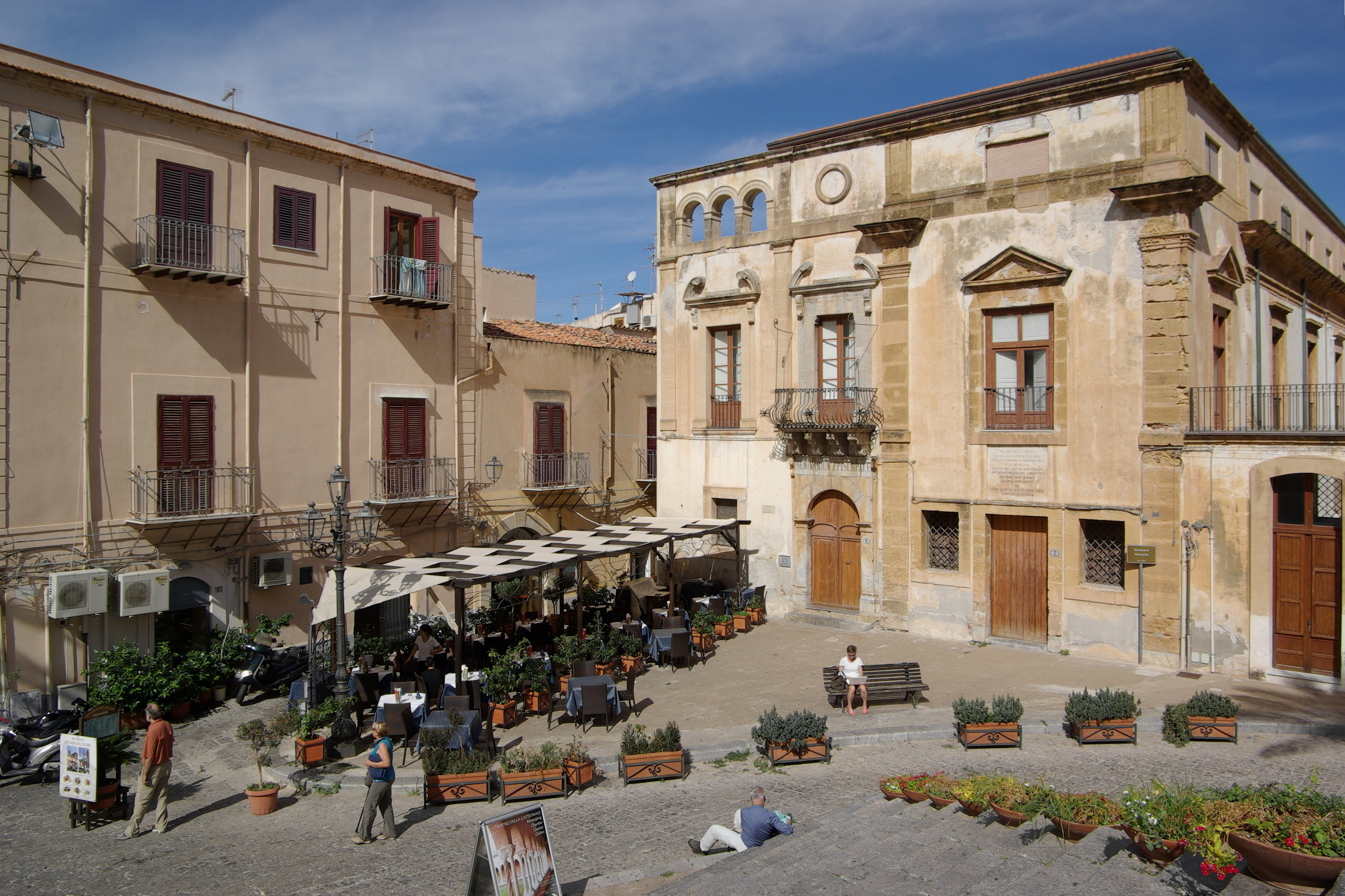 Italy, Sicily, Cefalù, Piazza Duomo